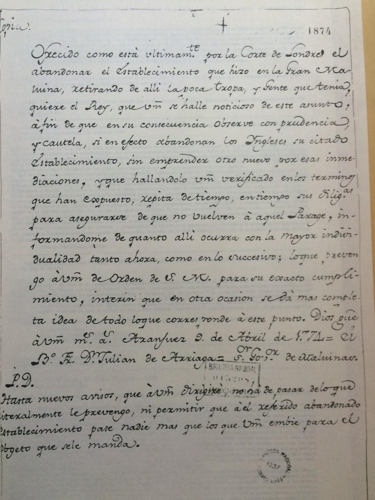 Julian de Arriaga letter asking to Malvinas Spanish Government [Falklands] to ensure the not return of the british to the Islands.